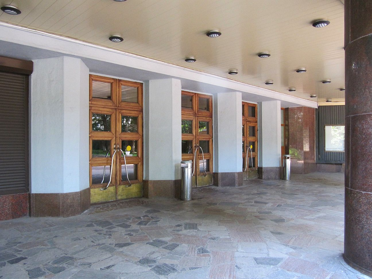 Mossovet Theatre at the Aquarium Garden in Moscow (entrance)